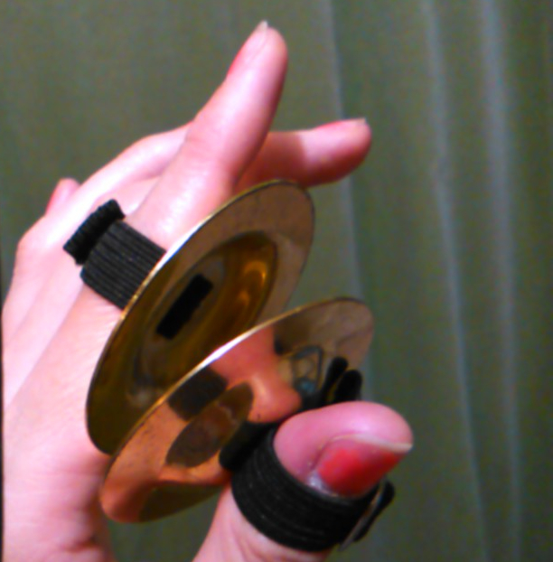 zills zils sājāt